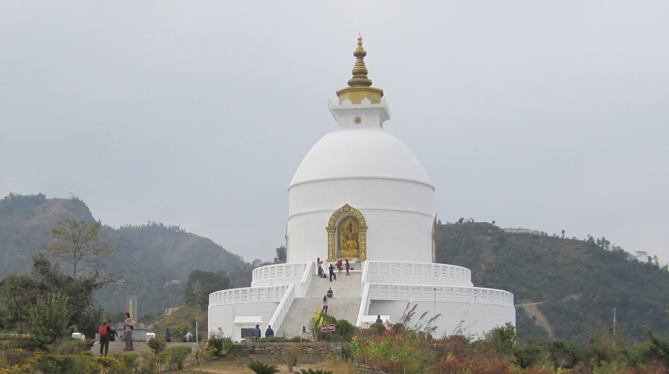 Shanti Stupa